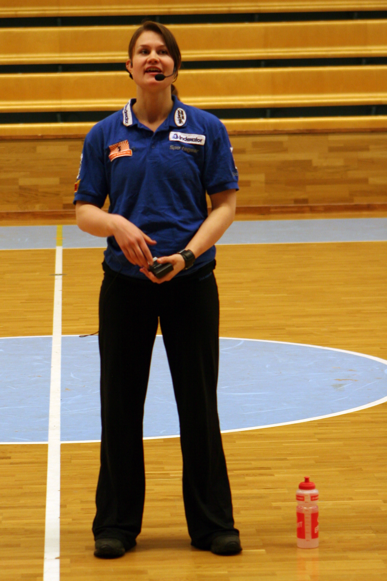 Heidi Andersson – The armwrestler from Ensamheten